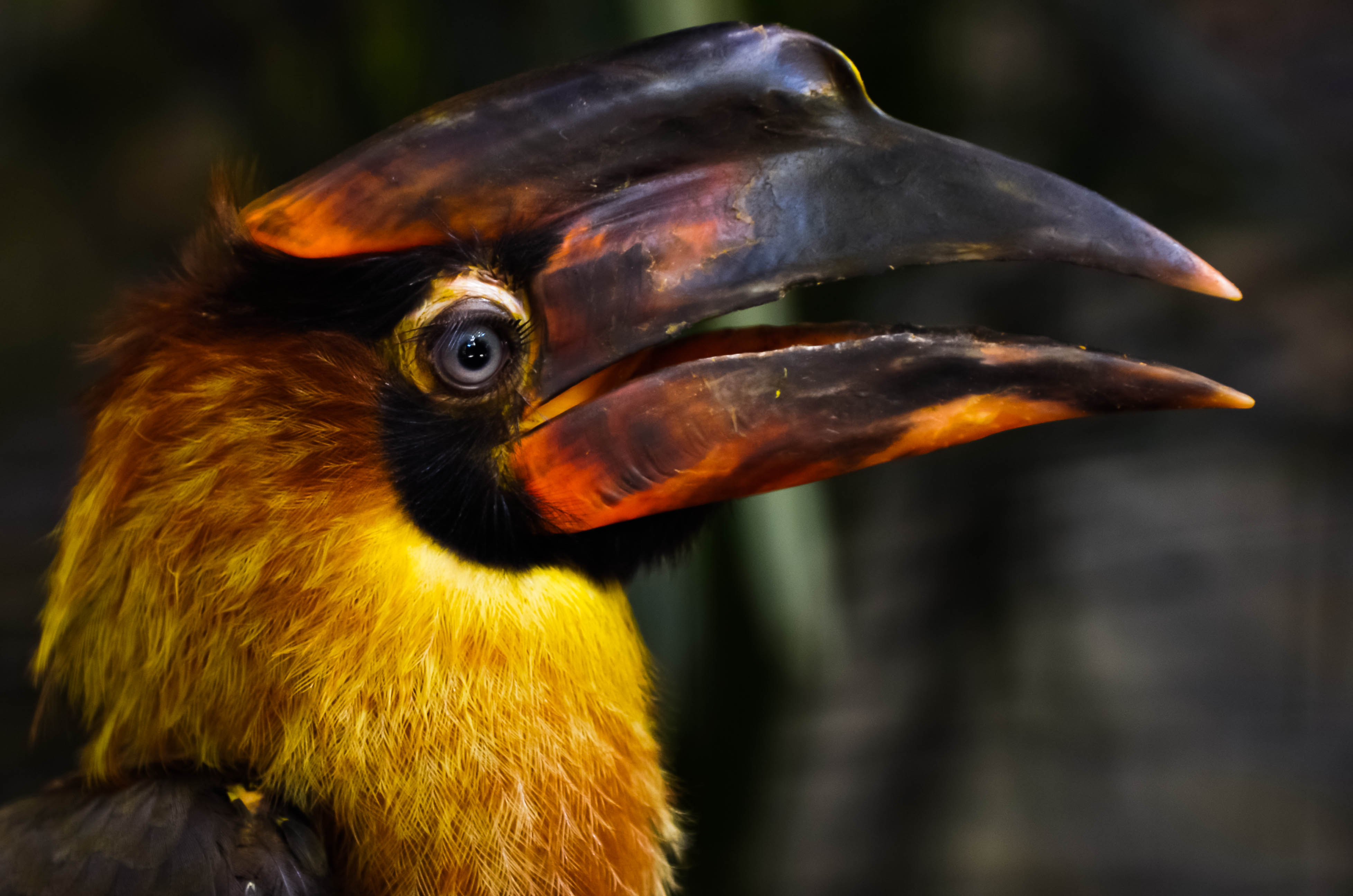 An immature Rufous Hornbill in a zoo.